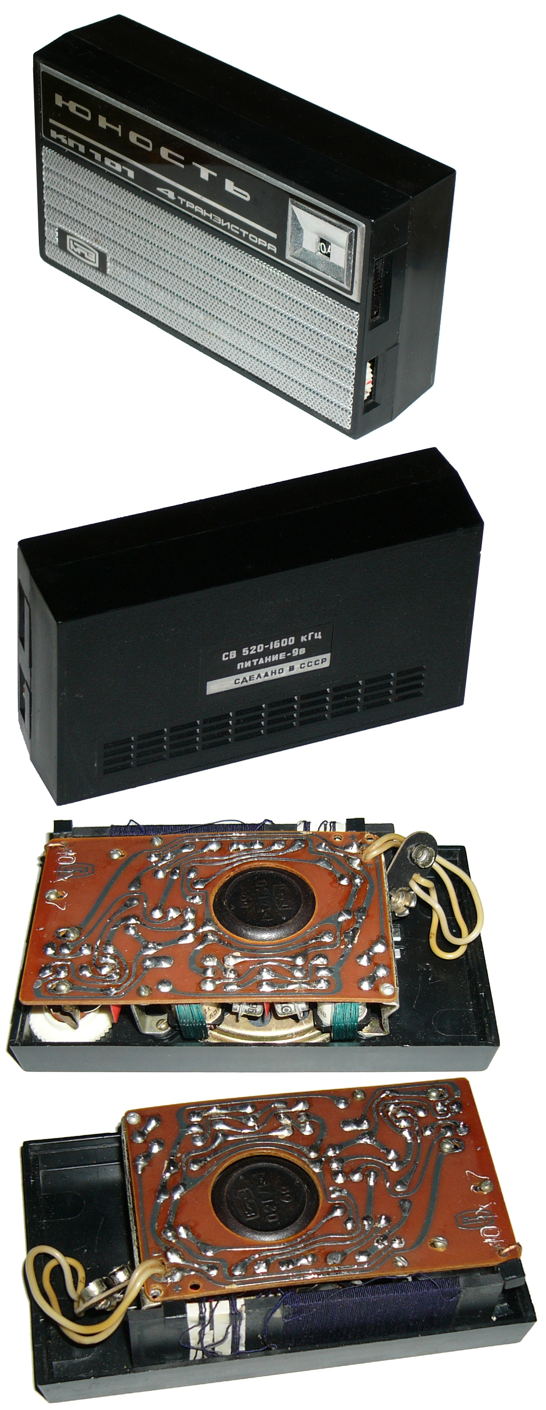 Yunost KP-101 transistor pocket radio kit, USSR, 1978